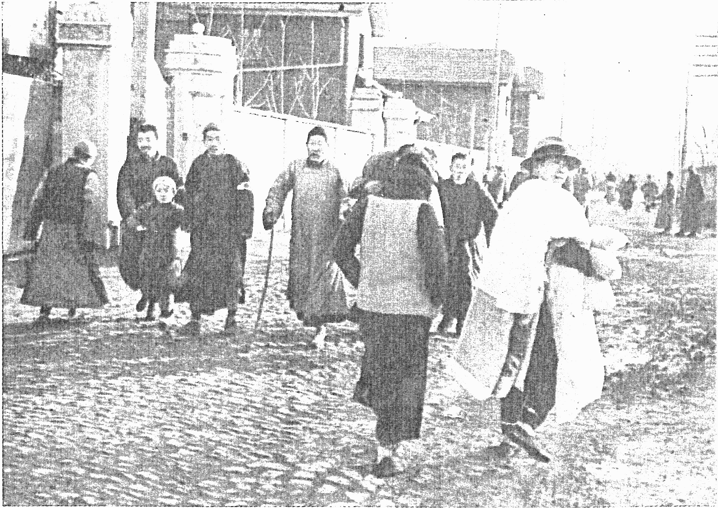 Busy street in Nanking safety zone(December 27, 1937)